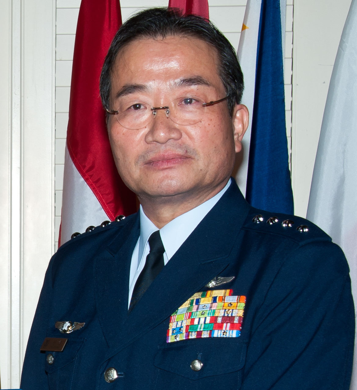 General Yoshiyuki Sugiyama (Chief of Staff -Koku Jietai-JASDF)